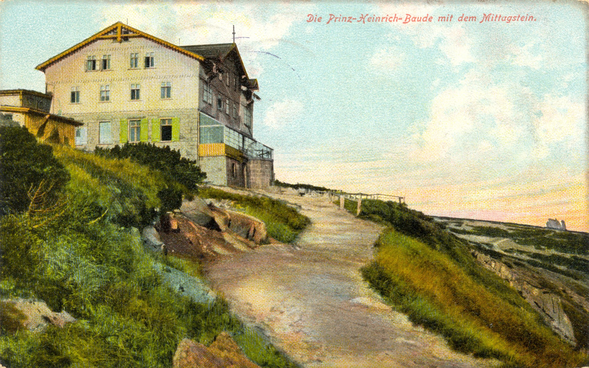 Bouda prince Jindricha